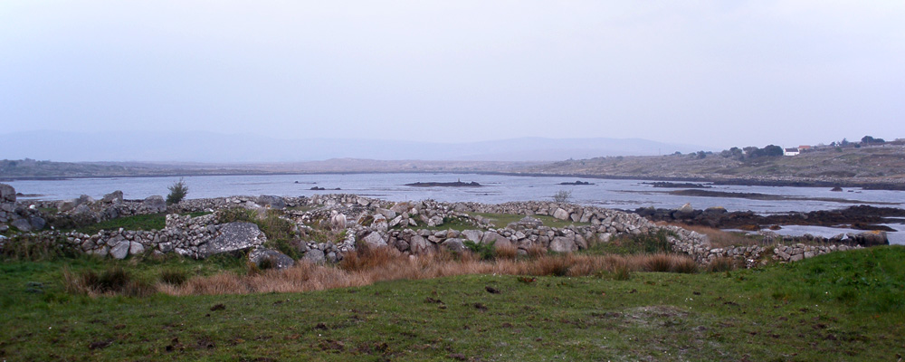 Looking over Camus Bay at Muiceanach idir Dhá Sháile in west County Galway, Ireland.